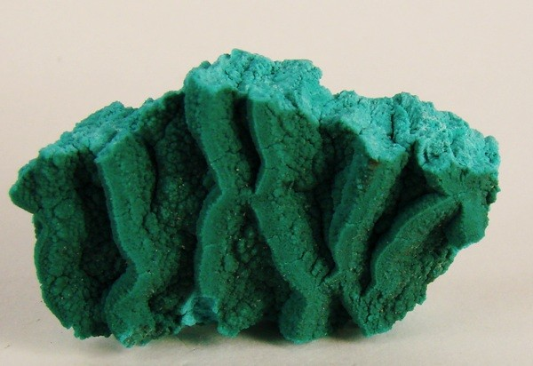 Woodwardite Locality: Cornwall, England, UK (Locality at ) Size: 2.9 x 1.8 x 0.7 cm. Woodwardite is a rare hydrated copper sulfate and this fine, old-time piece is from the Type Locality - Cornwall, England. This wavy piece has turquoise-blue edges above bluish-green above sky-blue woodwardite. A striking toenail from a classic locale. Rare.